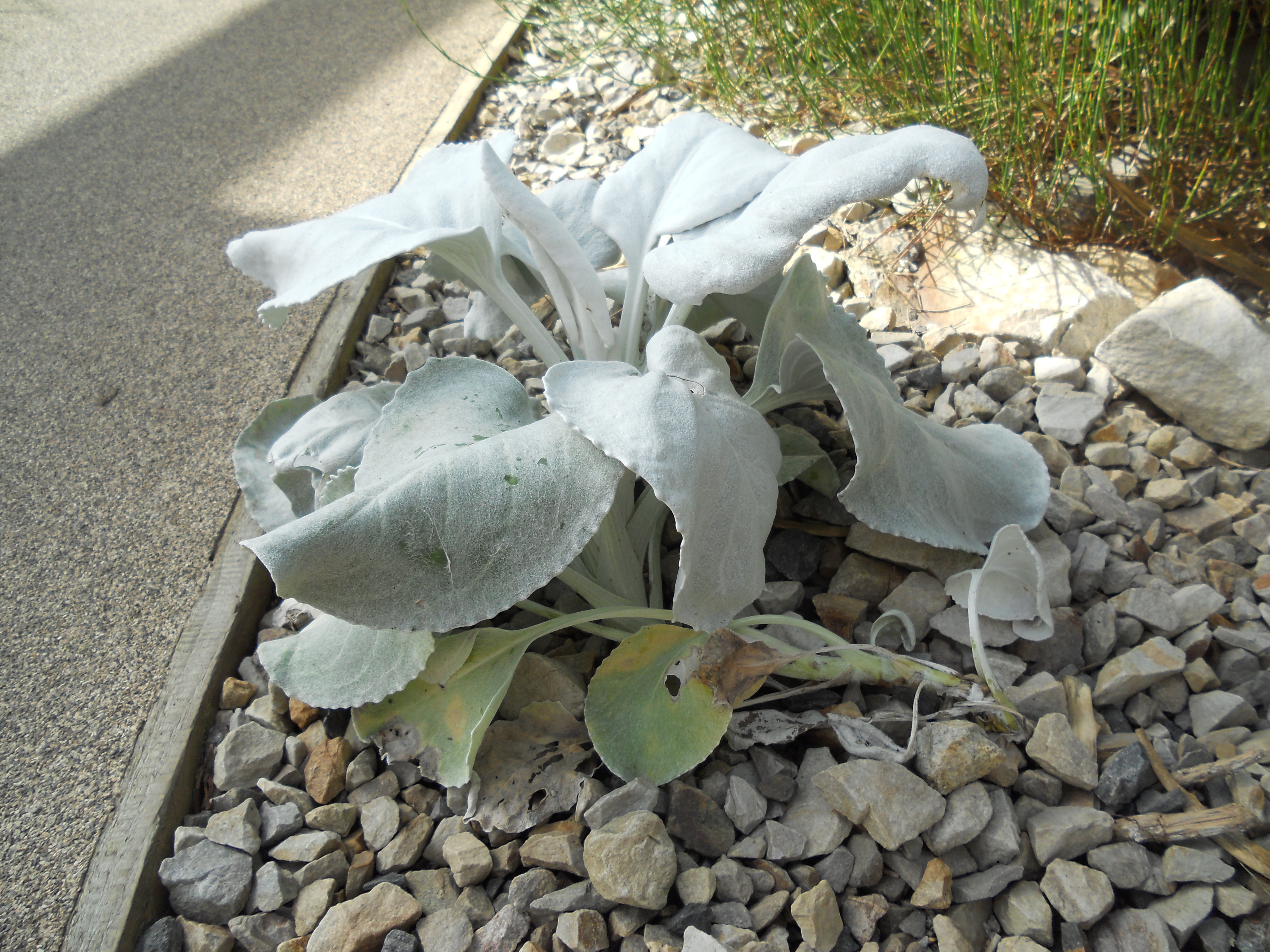 Senecio candidans at the National Botanic Garden of Wales.